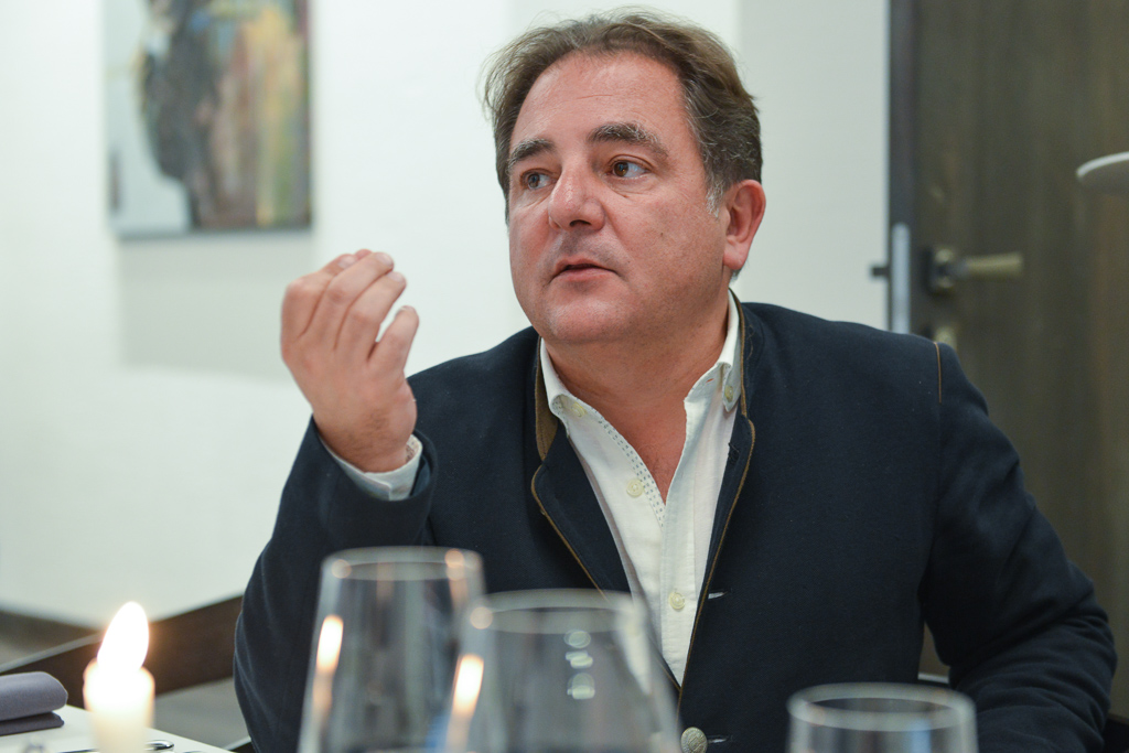 Robert Maklowicz, polish food critic, traveler, journalist, 2014